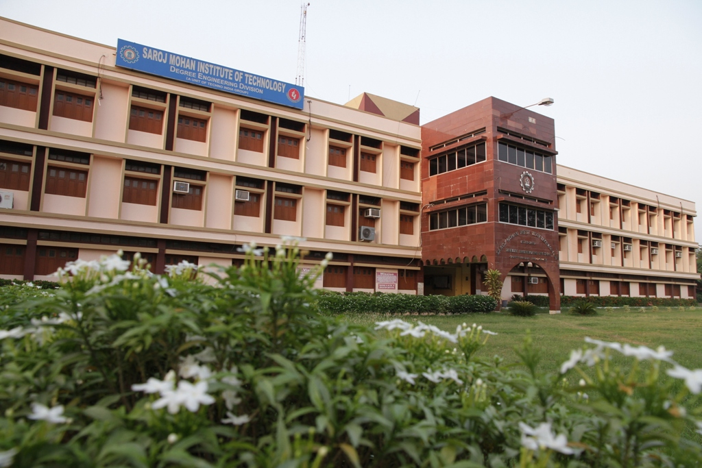 Main Building